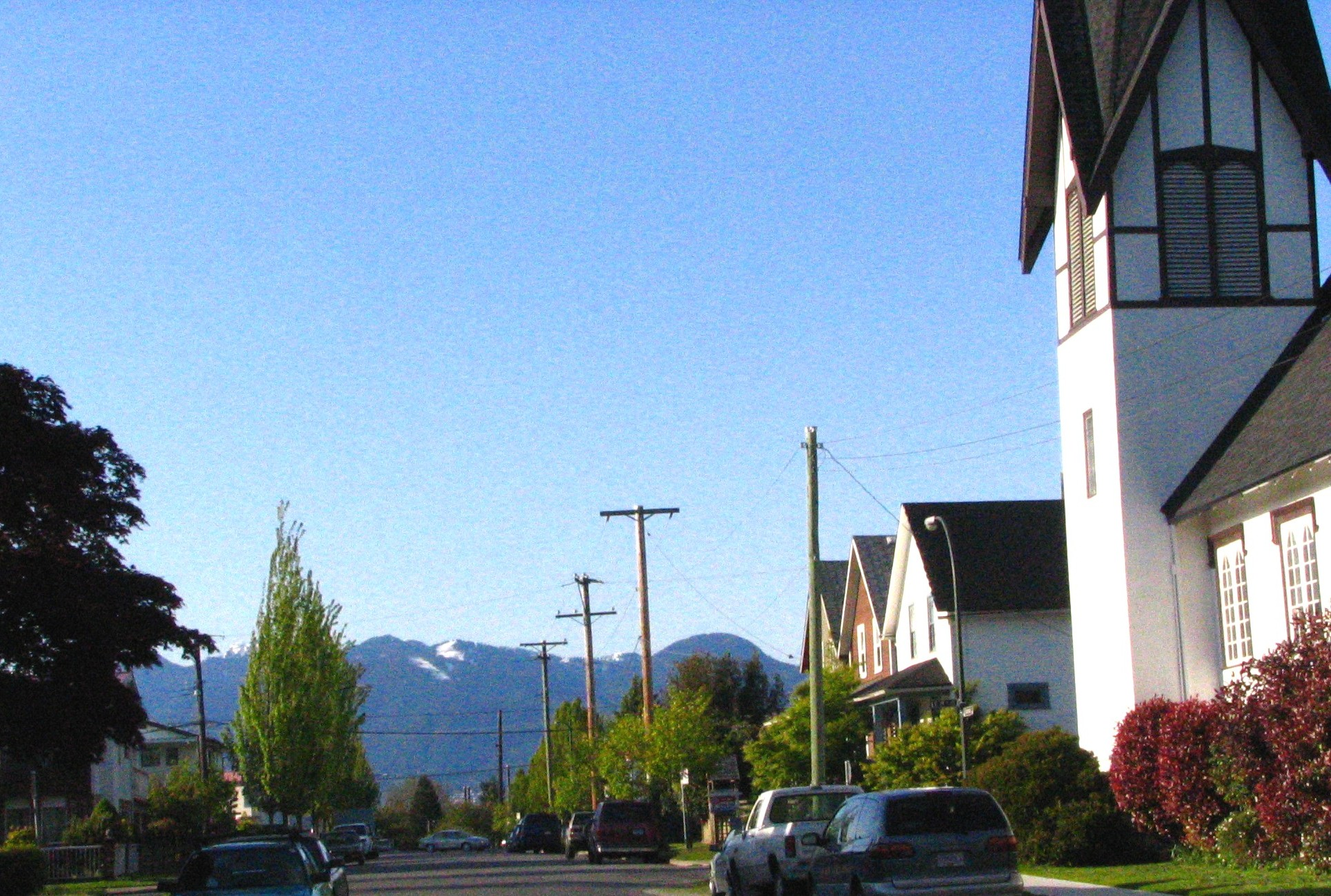 Street and houses in East Vancouver, looking north to North Shore Mountains. Taken by Martin Mullan, May 2006.